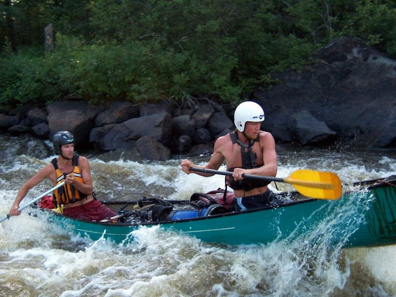 A two-person canoe ("C-2") on the Kesagami (according to the Flickr description: "Kesogami") River in northern Ontario, Canada